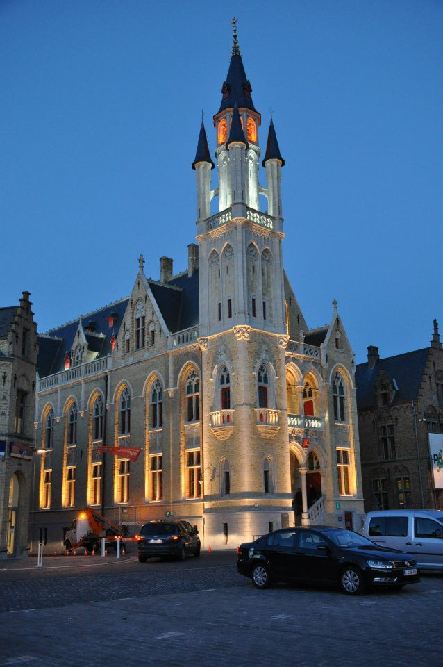 Poperinge town hall after renovation.